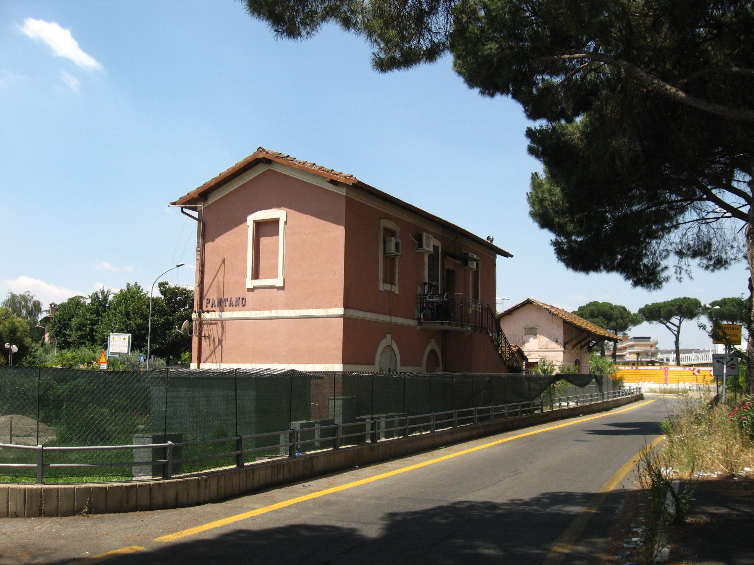 Former station Pantano Borghese of the Rome Fiuggi railway.